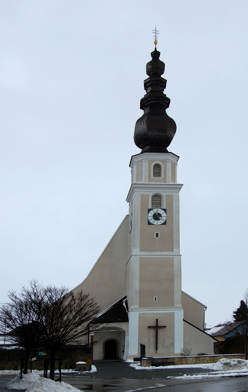 Mining, Upper Austria: Church